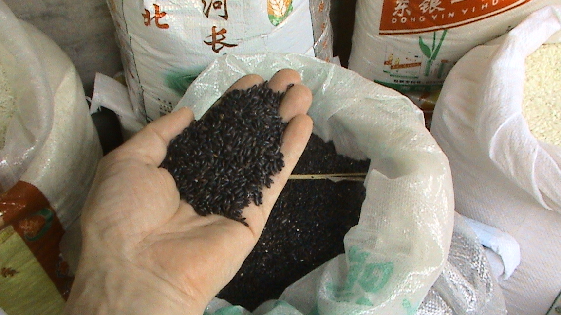 Black rice as sold in Haikou, Hainan, China